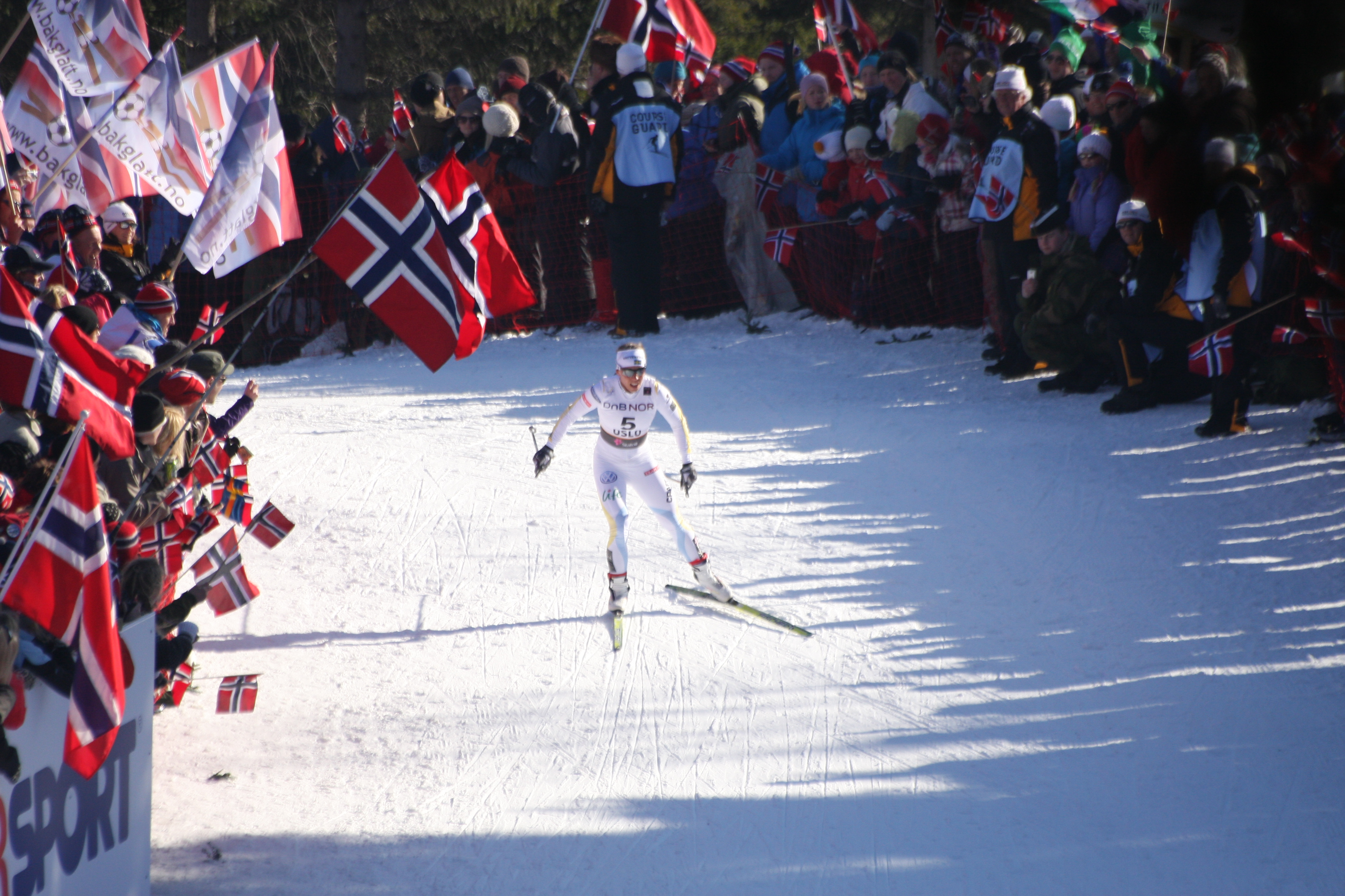 Charlotte Kalla, Sweden, is number 4 at the 17 km turn in the women's 30 km, FIS Nordic Ski World Championship, Oslo 2011.